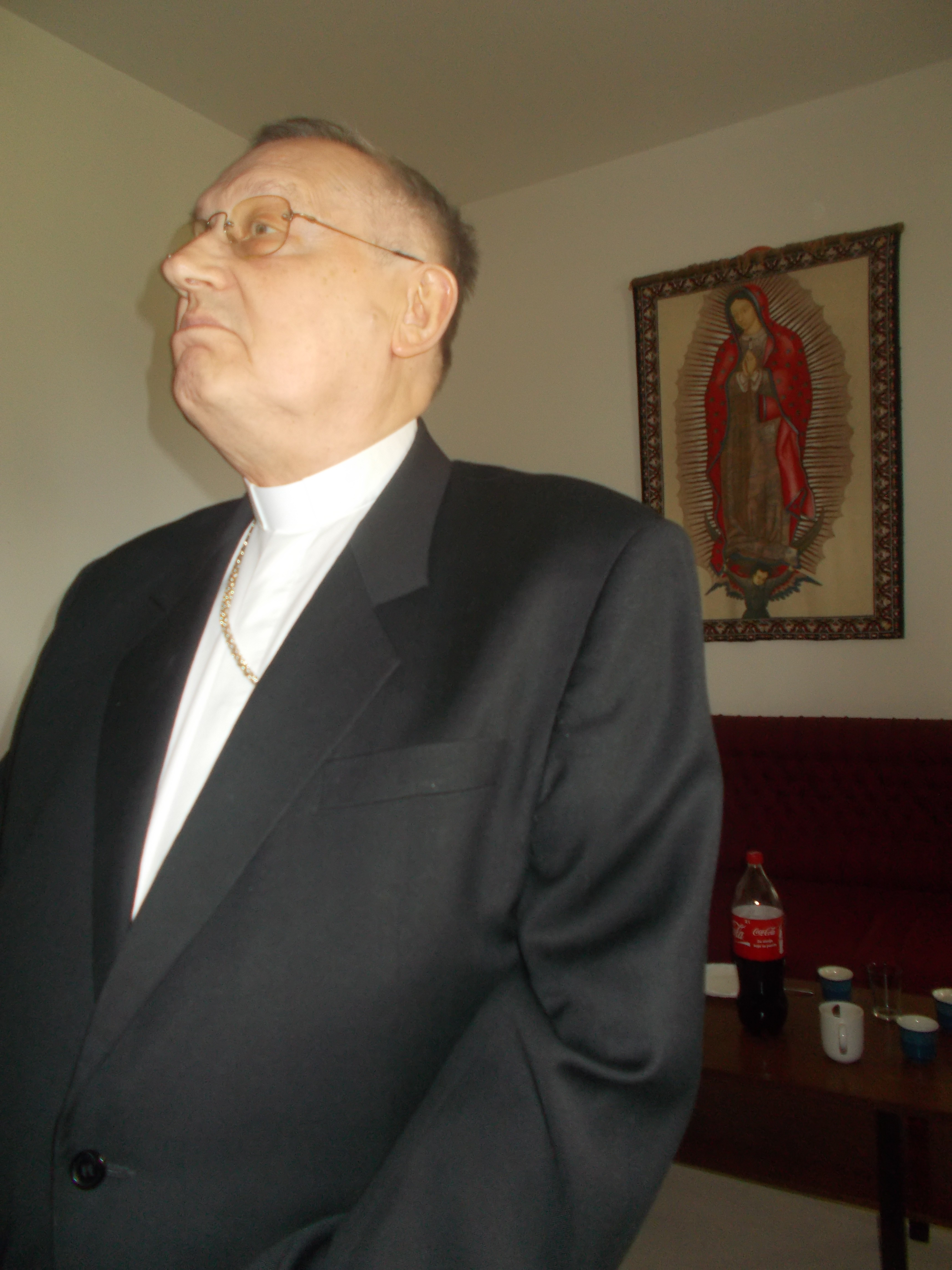 Bishop Pénzes from Subotica in opening of Year of mercy with nuncio, bishops, priests and regulars in Shrine of Doroslovo